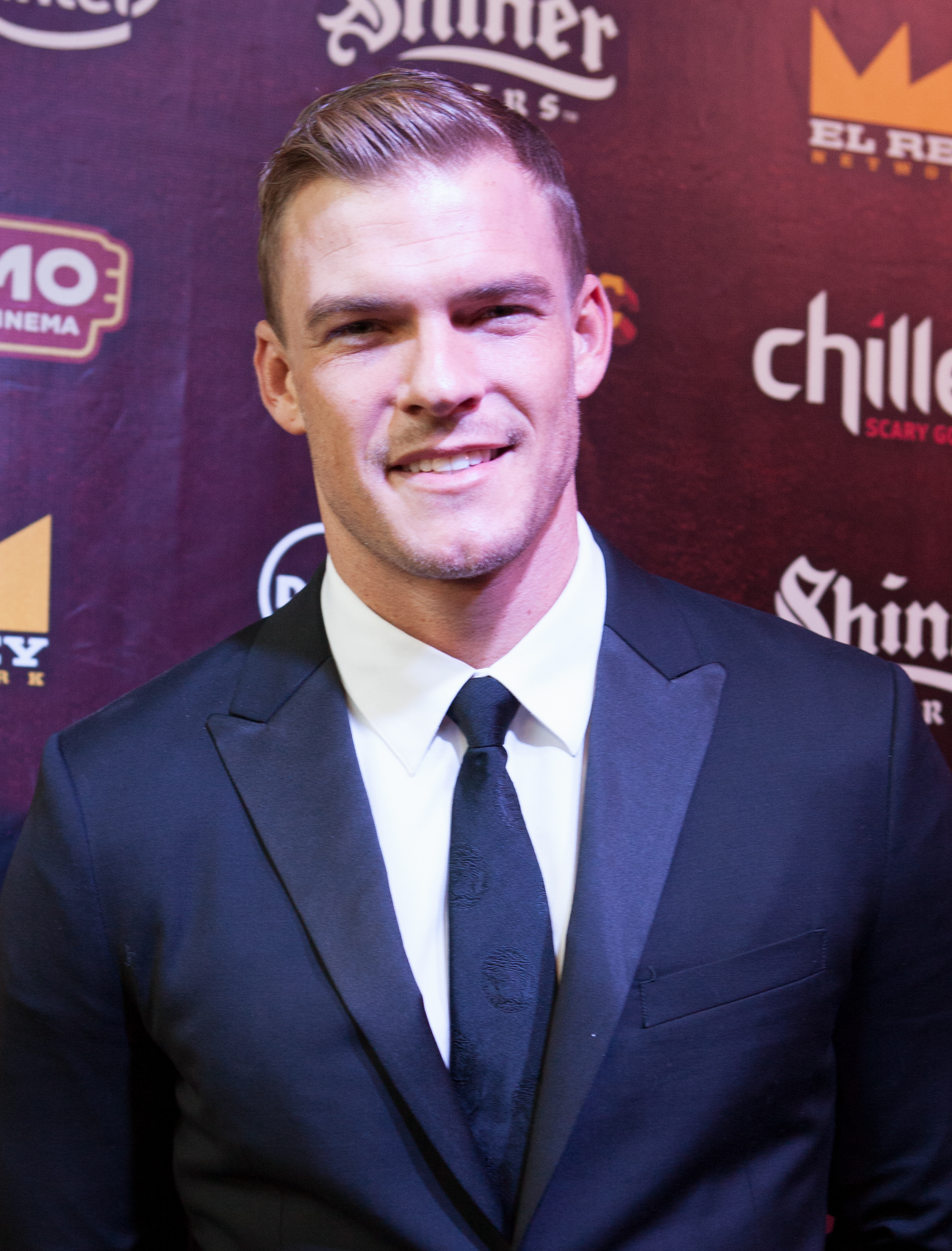 Alan Ritchson, LAZER TEAM red carpet, Fantastic Fest 2015-9770.jpg